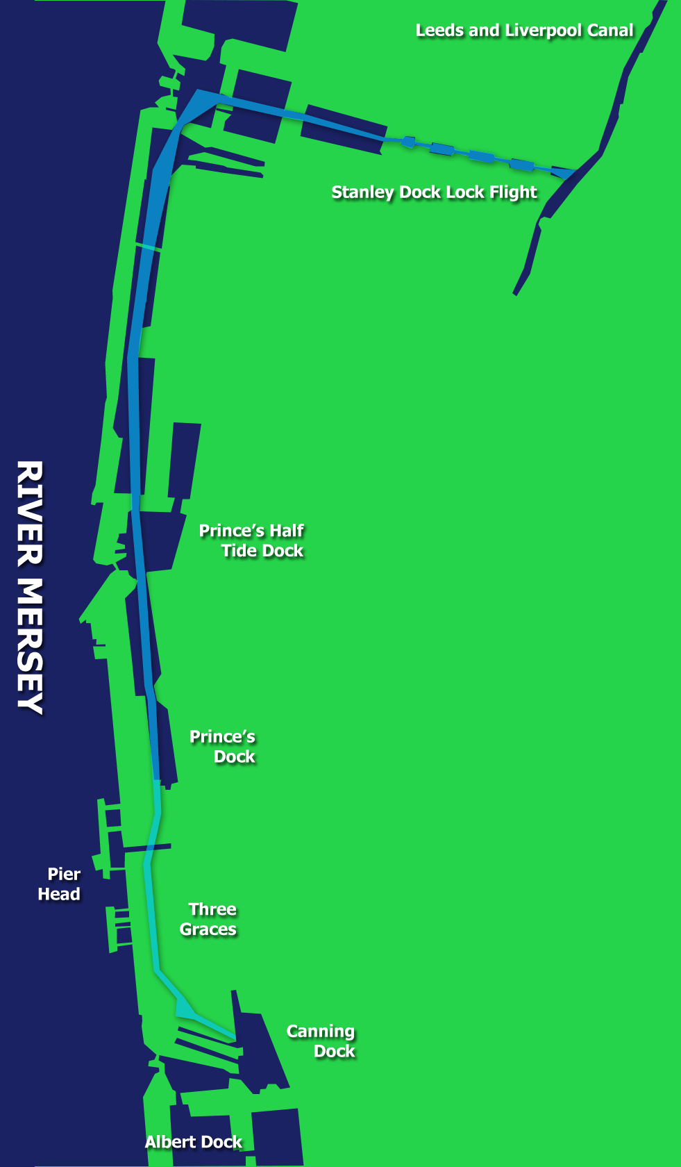 A map of the projected route of the Liverpool Canal Link, Liverpool, England.